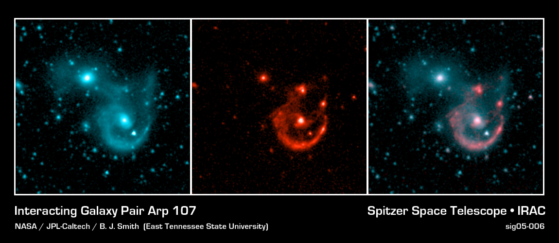 Interacting Galaxy Pair Arp 107